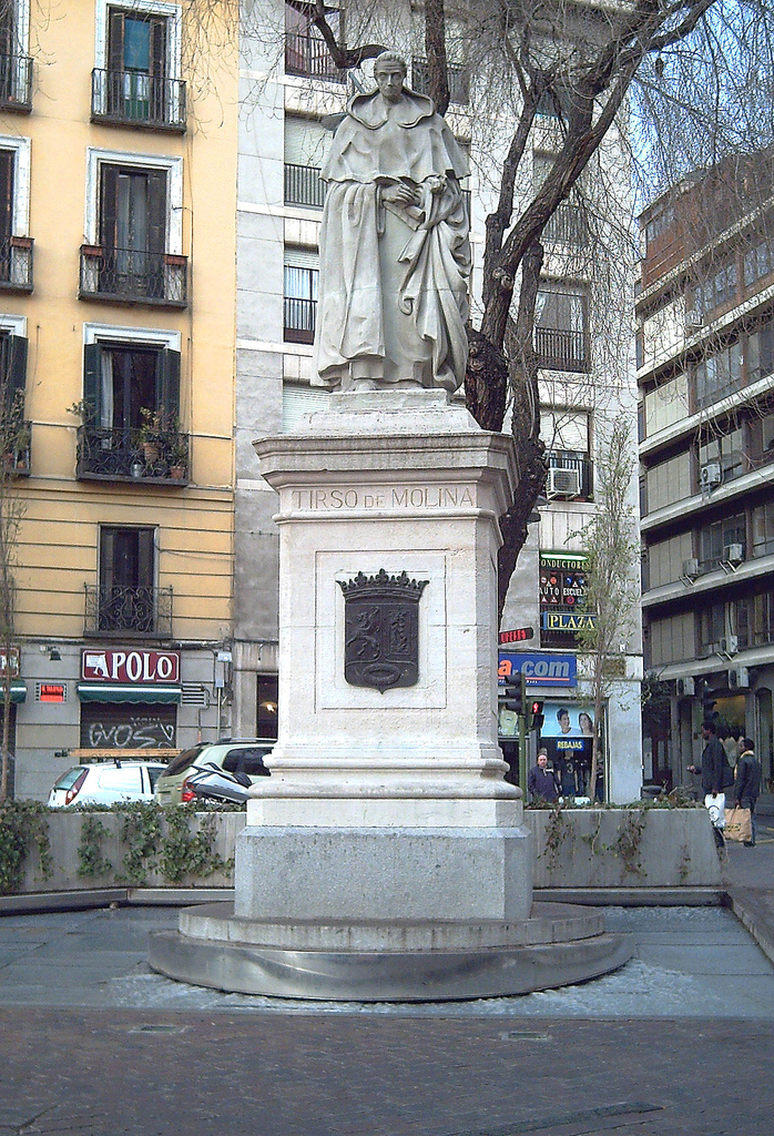 Monument to Tirso de Molina (1579-1648) at the Plaza de Tirso de Molina (square) in Madrid (Spain). Made of stone and bronze by Rafael Vela del Castillo and inaugurated in 1943.